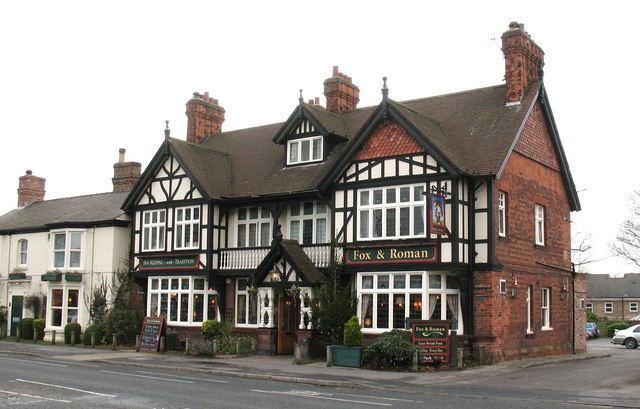 The Fox and Roman, Dringhouses A pub with a rather odd name. Presumably the 'Roman' part refers to the Roman road from Tadcaster to York which passes the door.